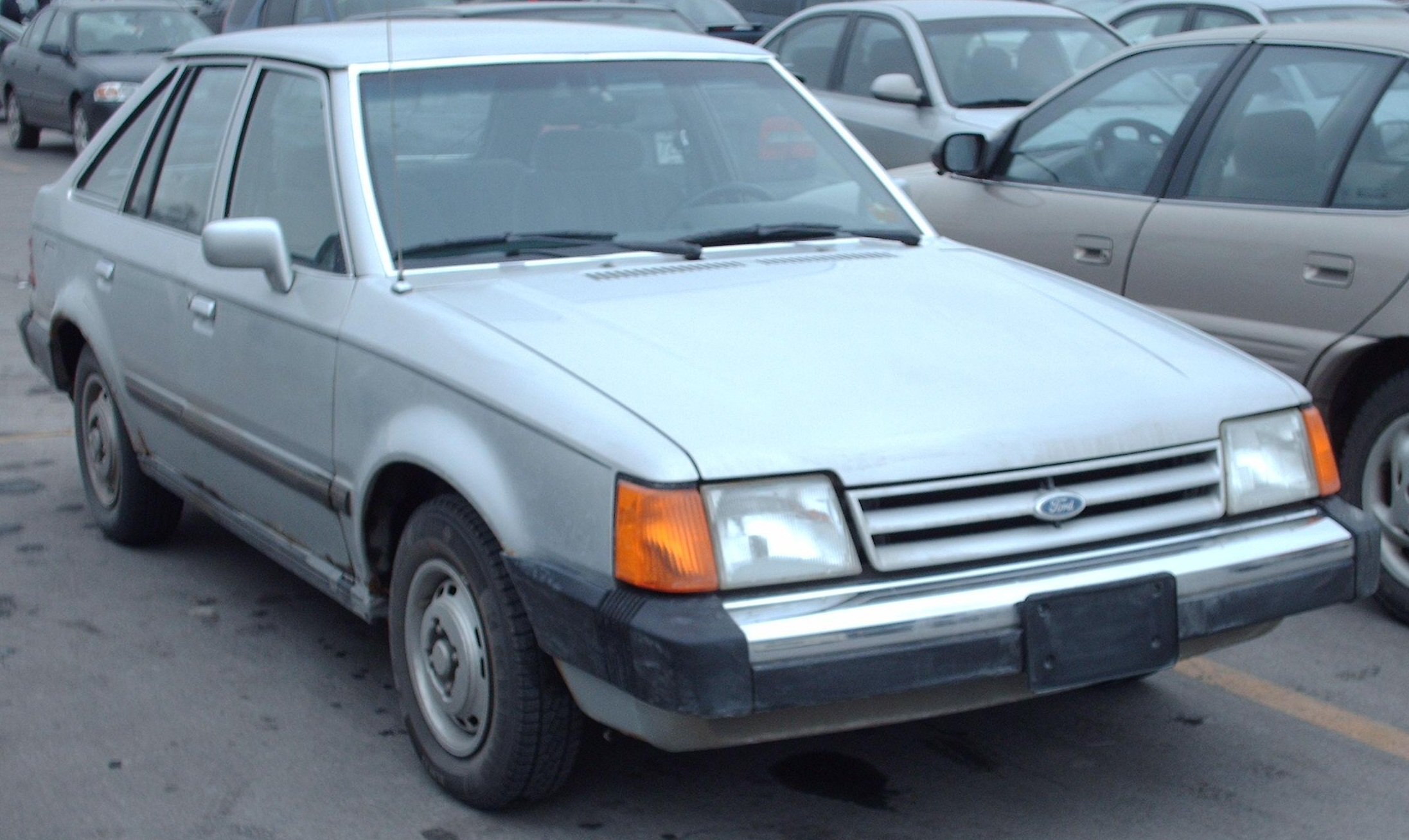 1986-1987 Ford Escort photographed in Montreal, Quebec, Canada.